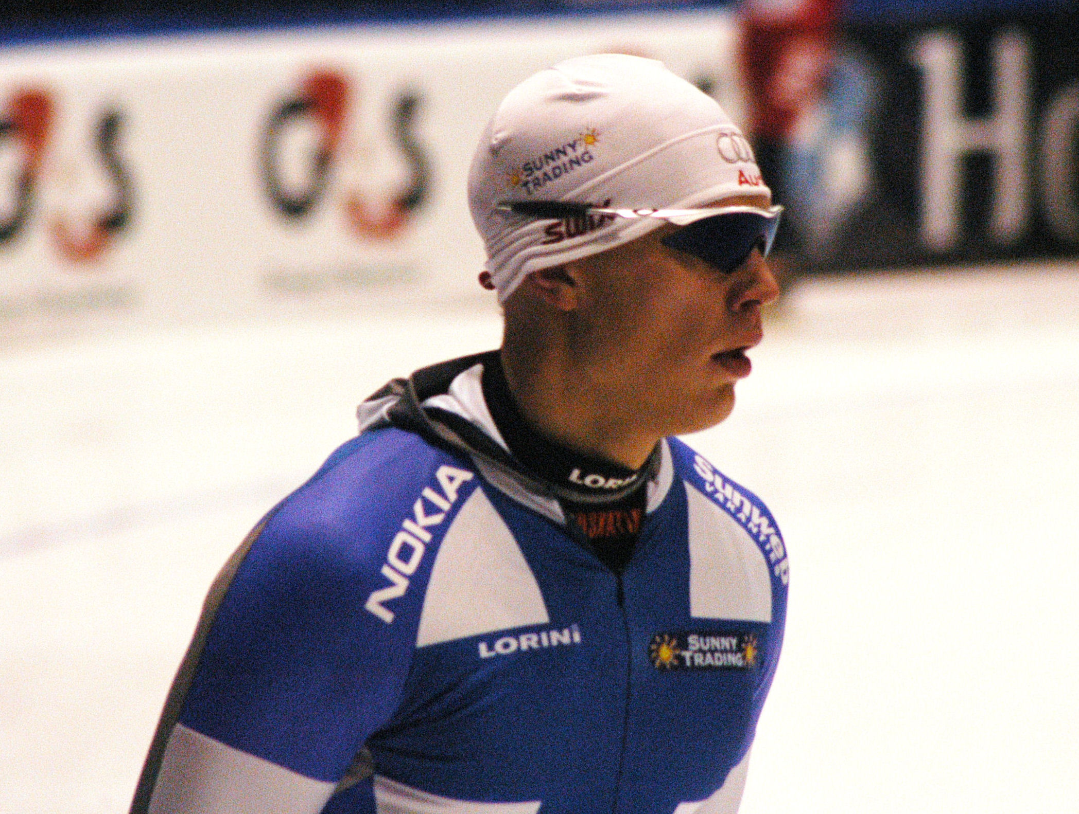 Pekka Koskela (FIN) at a World Cup Speedskating in Heerenveen, the Netherlands